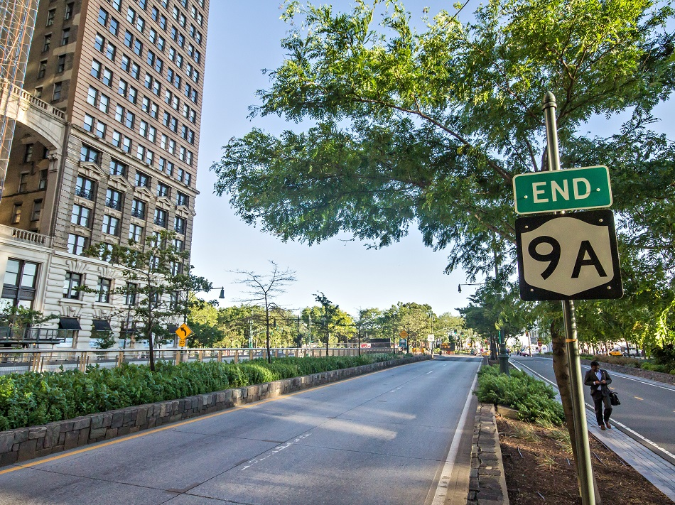 New York State Route 9A (West Side Highway) End sign in Battery Park City, New York City, NY.